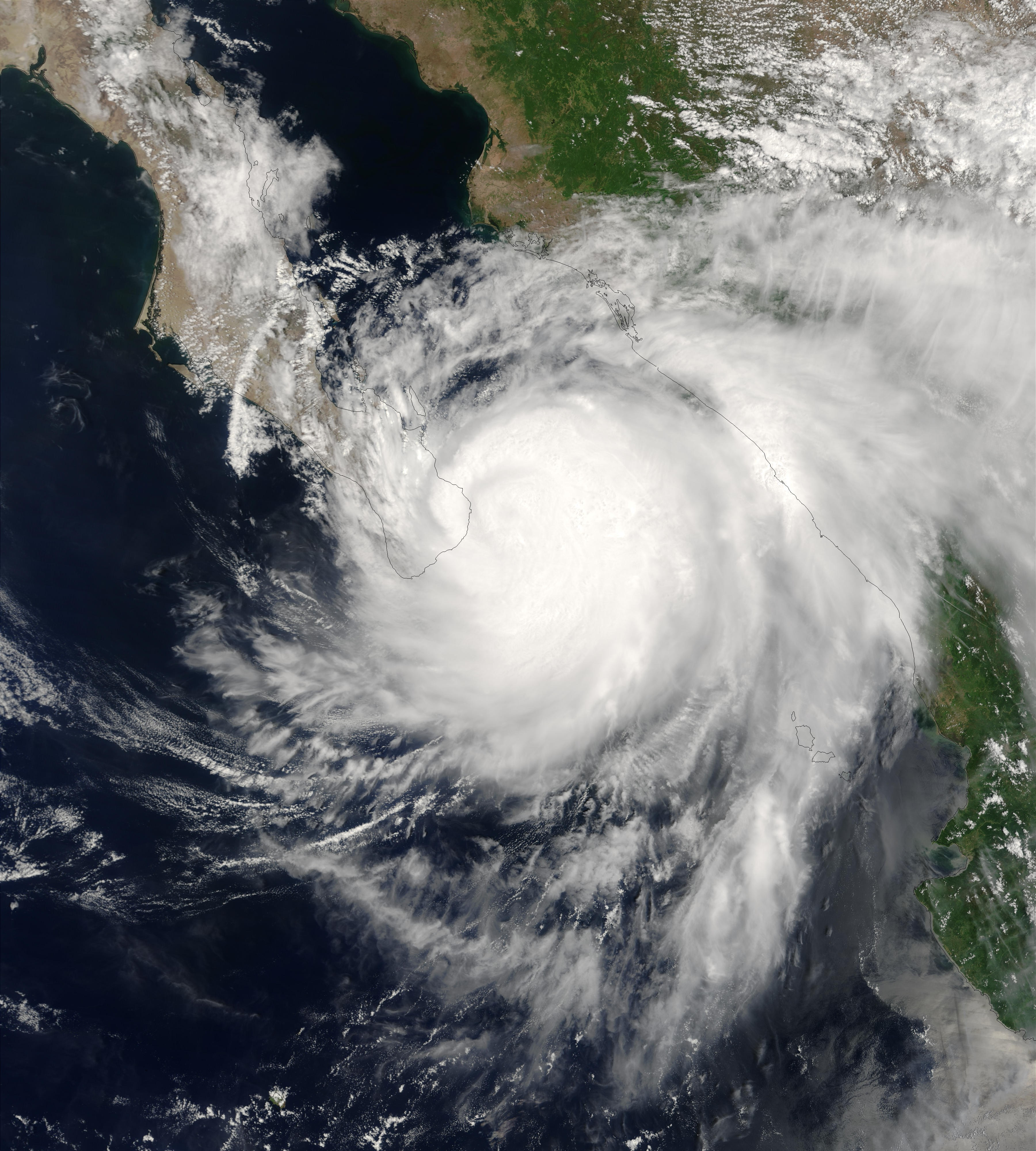 The MODIS instrument onboard NASA´s Terra spacecraft captured this true-color image of Hurricane Ignacio as it was bearing down on the southern tip of Baja. At the time this image was taken on August 24, 2003, Ignacio was packing winds near 105 mph, making it a Category 2 storm on the Saffir-Simpson scale. The National Hurricane center was prediciting 10-15 inches of rain to fall in the southern baja region and said the rains could cause “life-threatening” flash floods and mudslides.